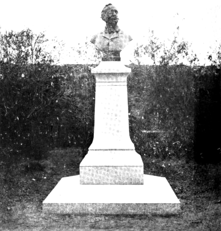 Jules-Clément Chaplain (1839-1909), Franch sculptur, engraver and medallist